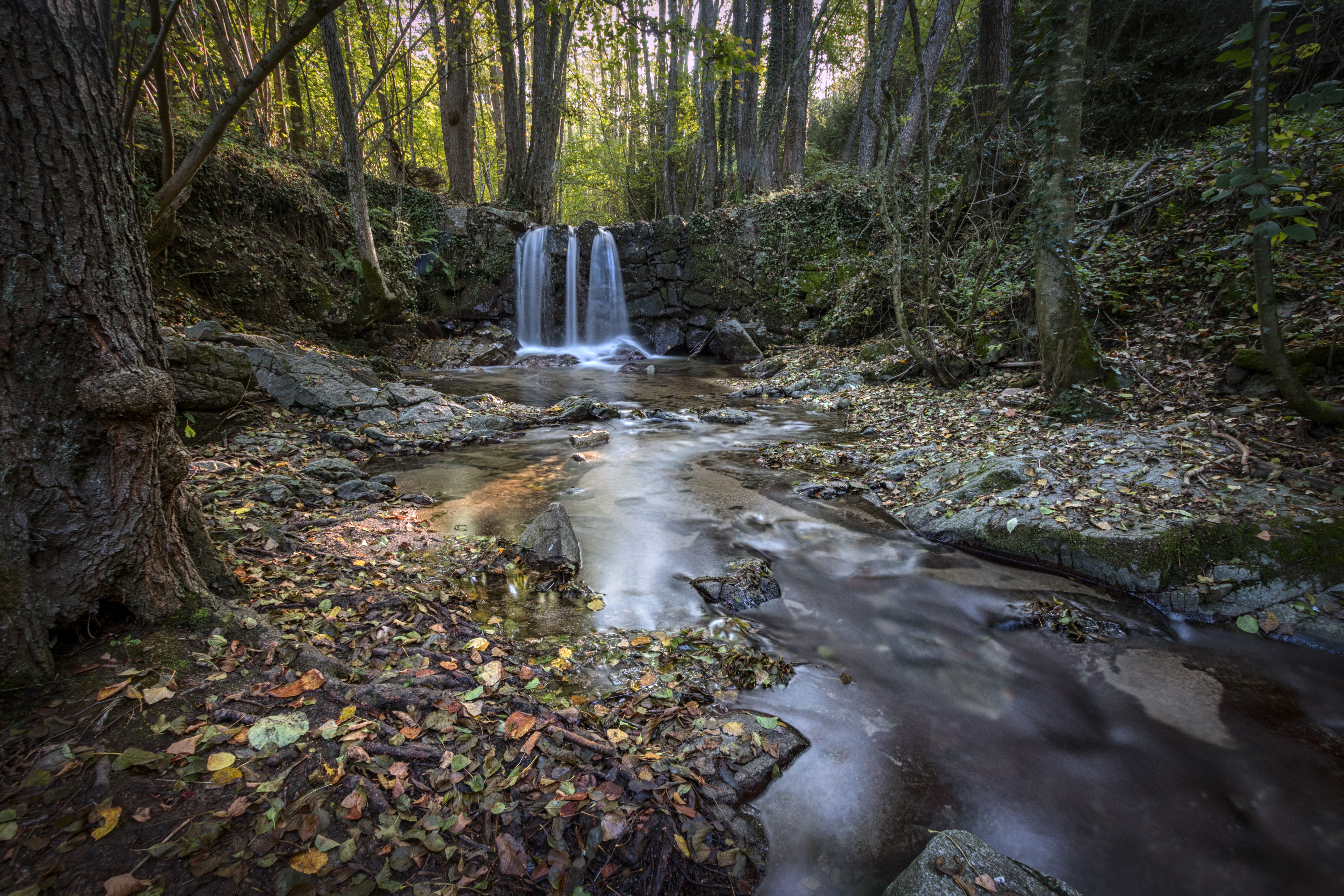 This is a photography of a Site of Community Importance in Spain with the ID: ES5110001. Natura2000 entry, EEA entry